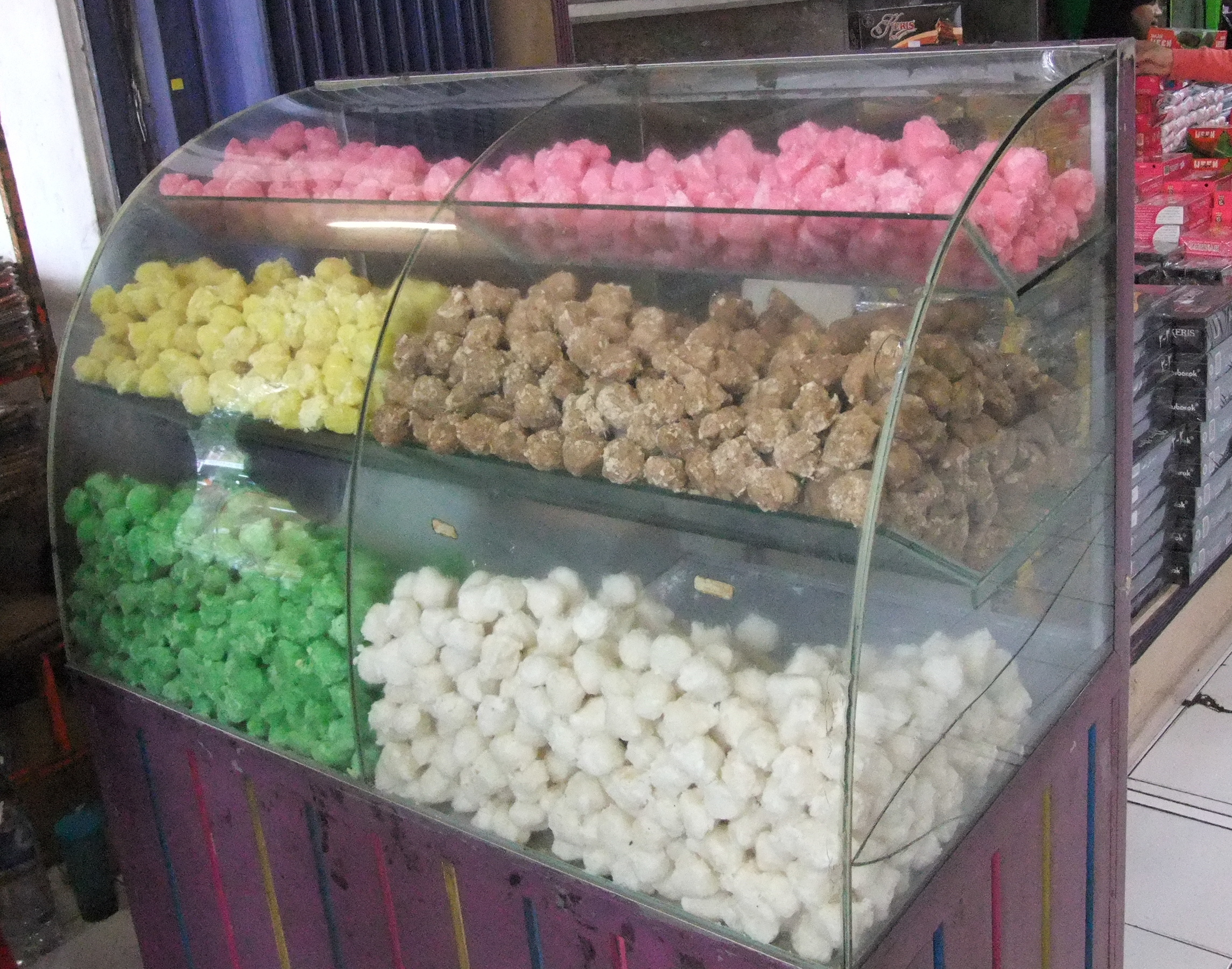 Geplak